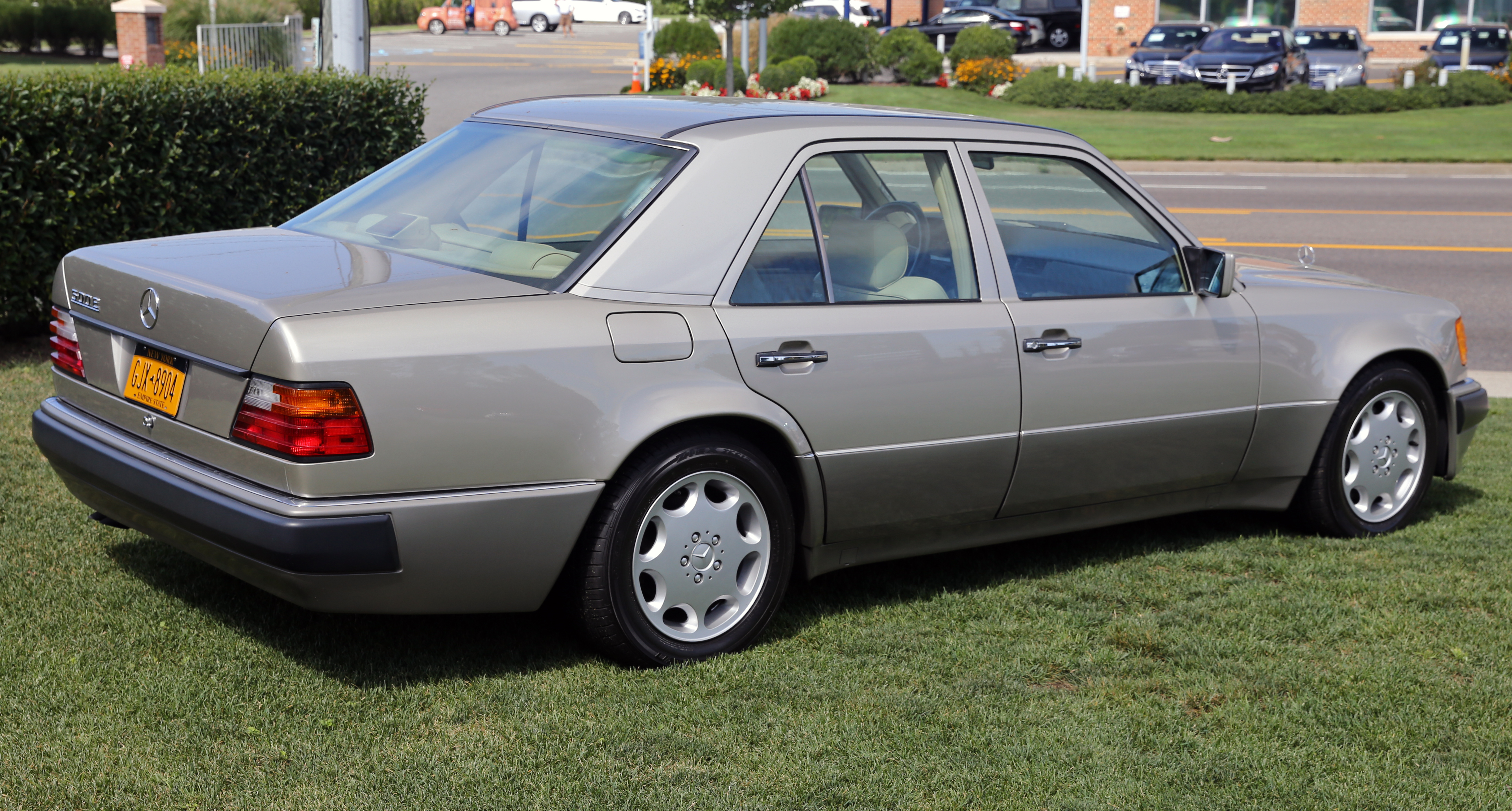 A 1992 Mercedes-Benz 500E in immaculate condition, at a classic car garage in Southampton, NY.